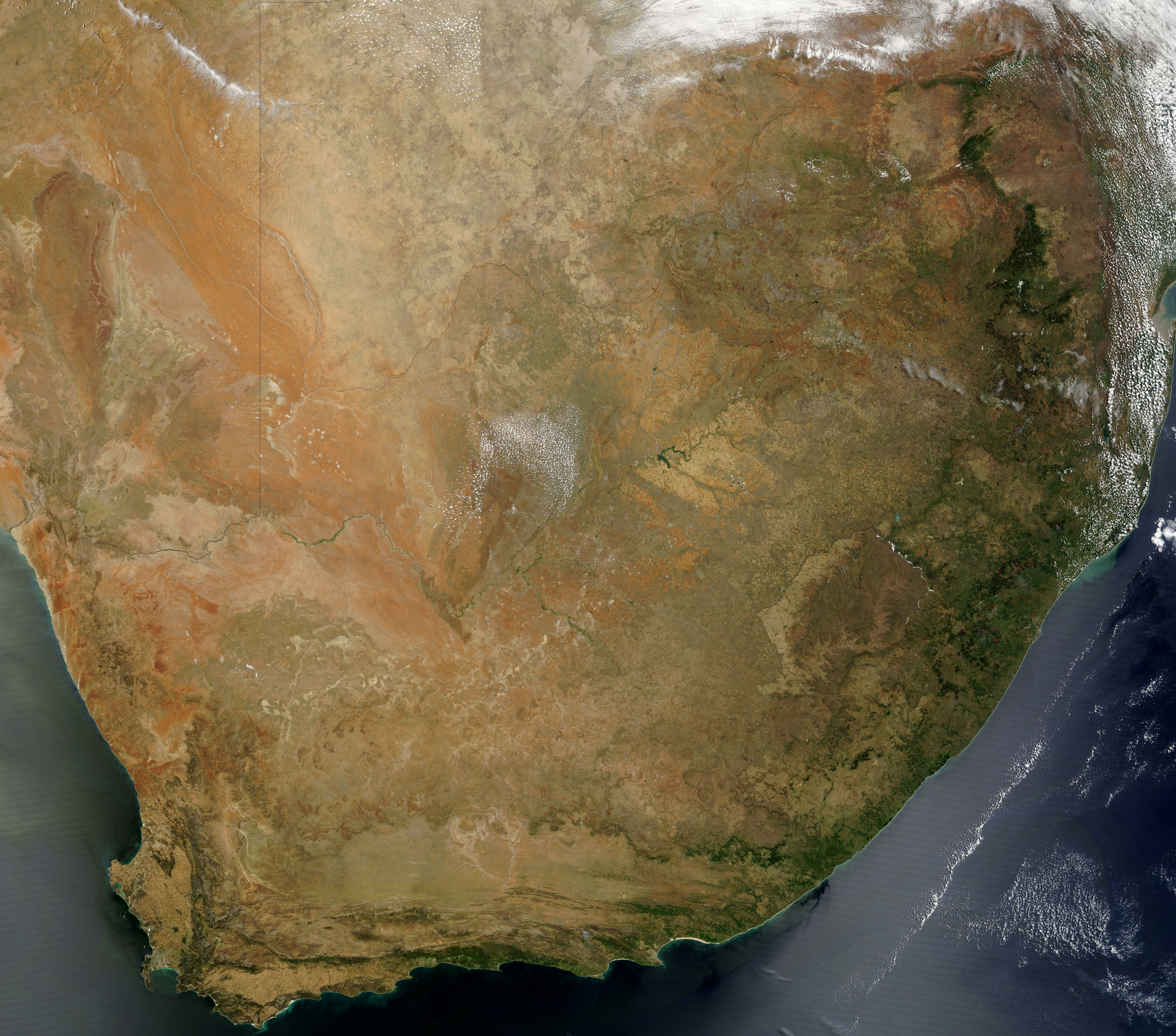 Composite satellite image of South Africa, Eswatini and Lesotho in November 2002.